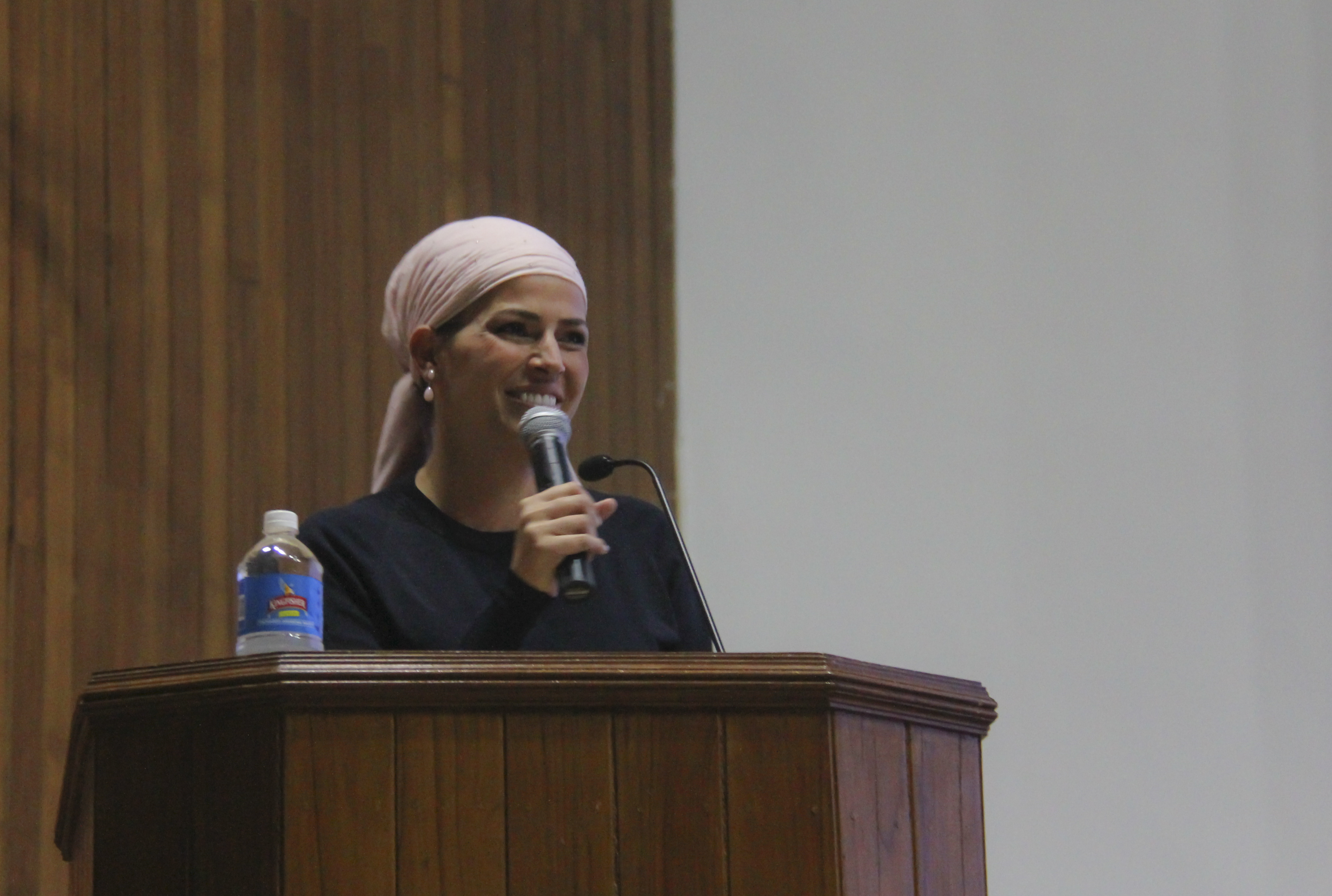 Linor Abargill